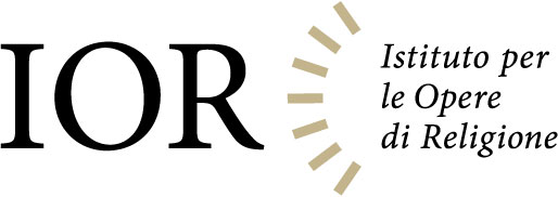 Logo IOR